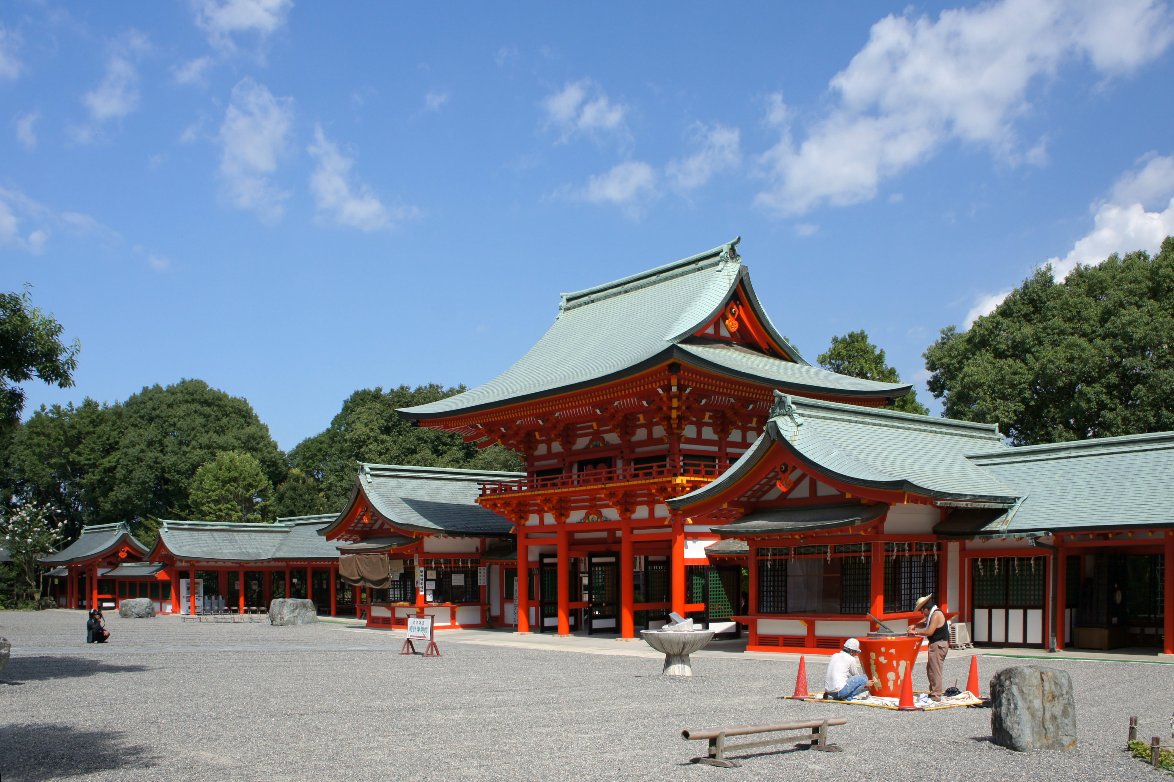 Oumi-jingu in Otsu, Shiga prefecture, Japan.